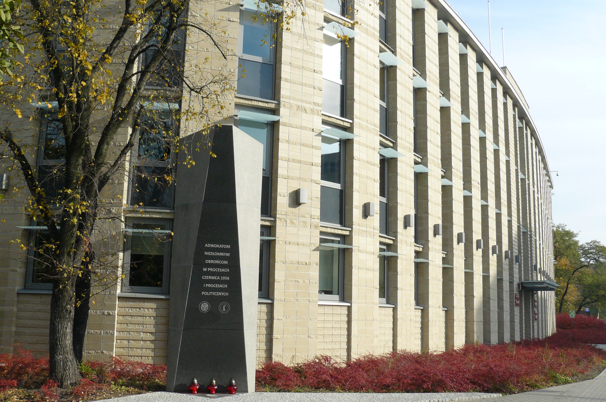 Adwocats '56 Monument in Poznan.